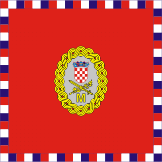 Flag of the defence minister of the Republic of Croatia